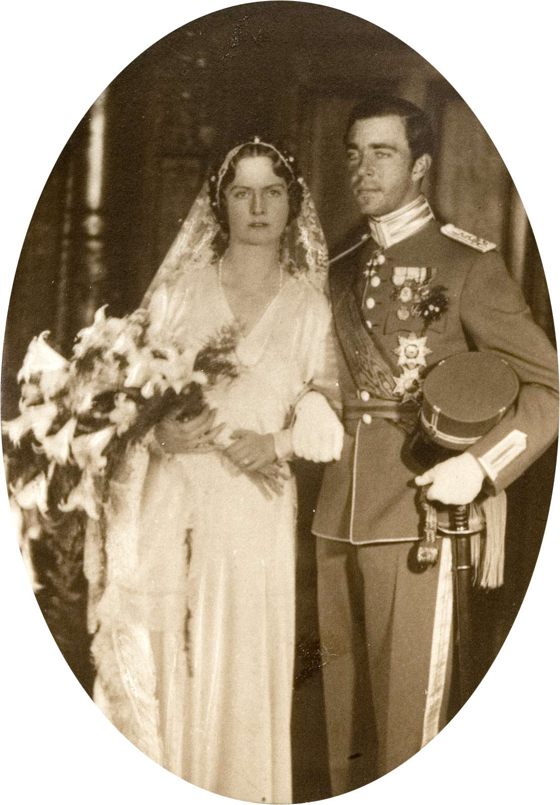 Prince Gustaf Adolf's wedding to Princess Sibylla of Saxe-Coburg and Gotha, 19 to 20 October 1932.